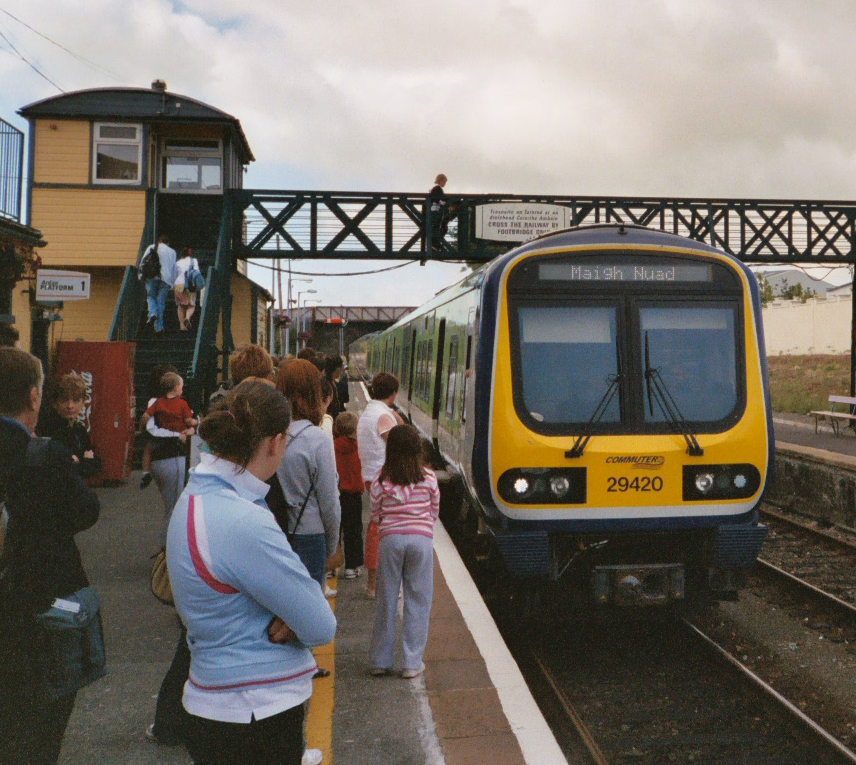 IÉ 29000 Class diesel multiple unit 29420 on a Western Commuter service to Maigh Nuad (Maynooth), Ireland